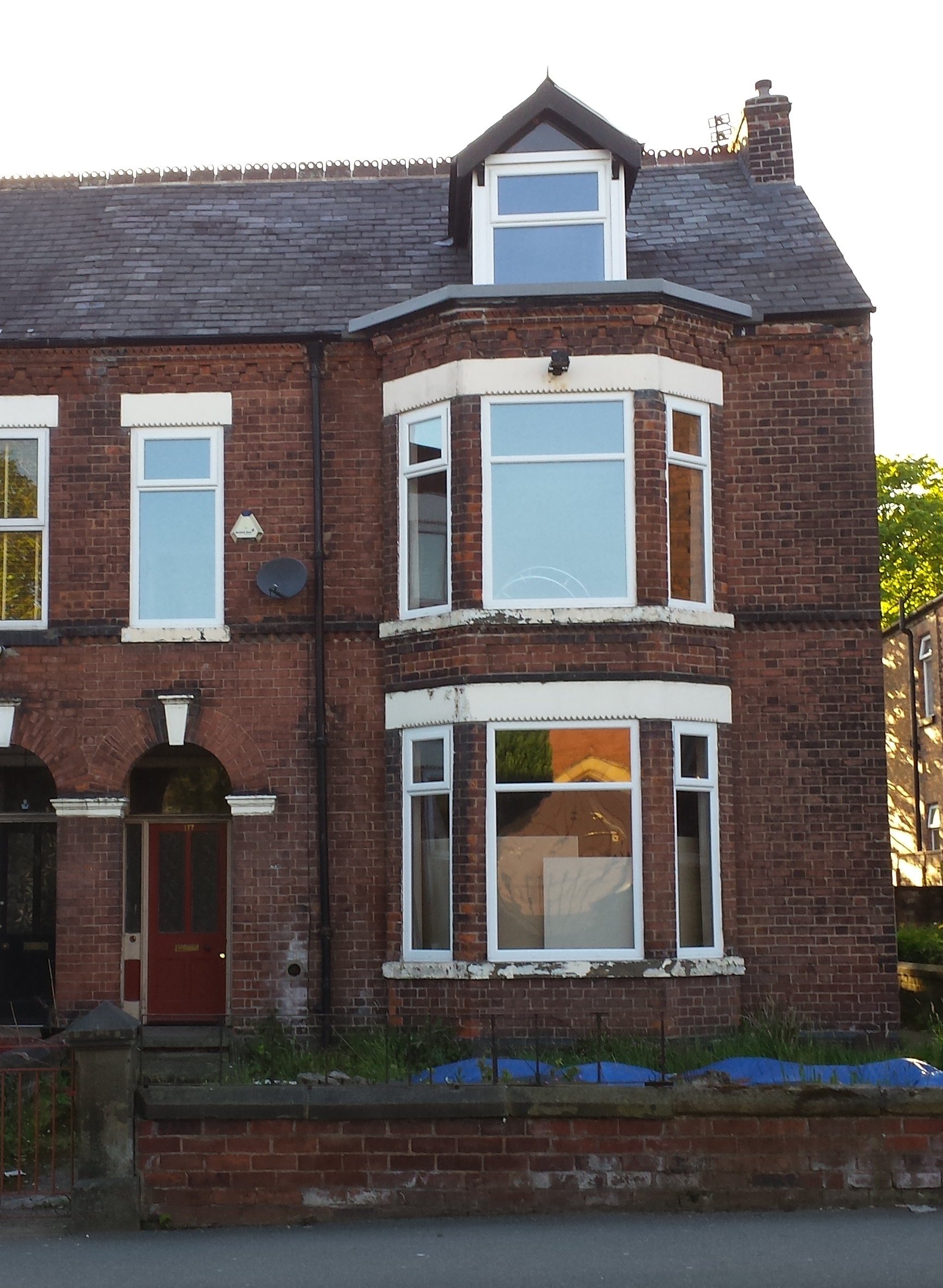 L.S. Lowry's former home in Pendlebury in 2015